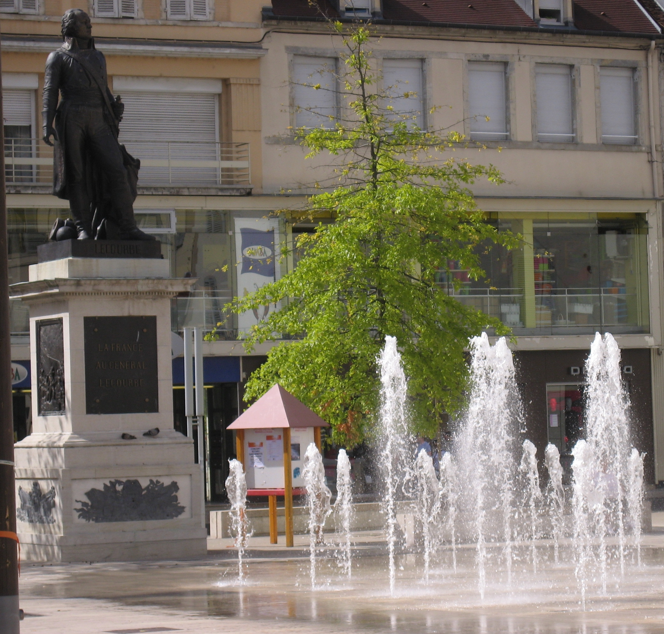 Place de la Liberté in Lons-le-Saunier, Jura, France, showing statue of Claude Lecourbe at left. The plaque on the statue reads, "LA FRANCE AU GENERAL LECOURBE"